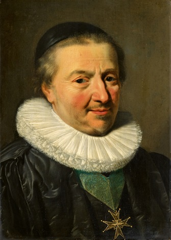 Portrait of Claude de Bullion, oil on panel, 33 x 23,5 cm